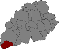 Location of Bovera in Garrigues